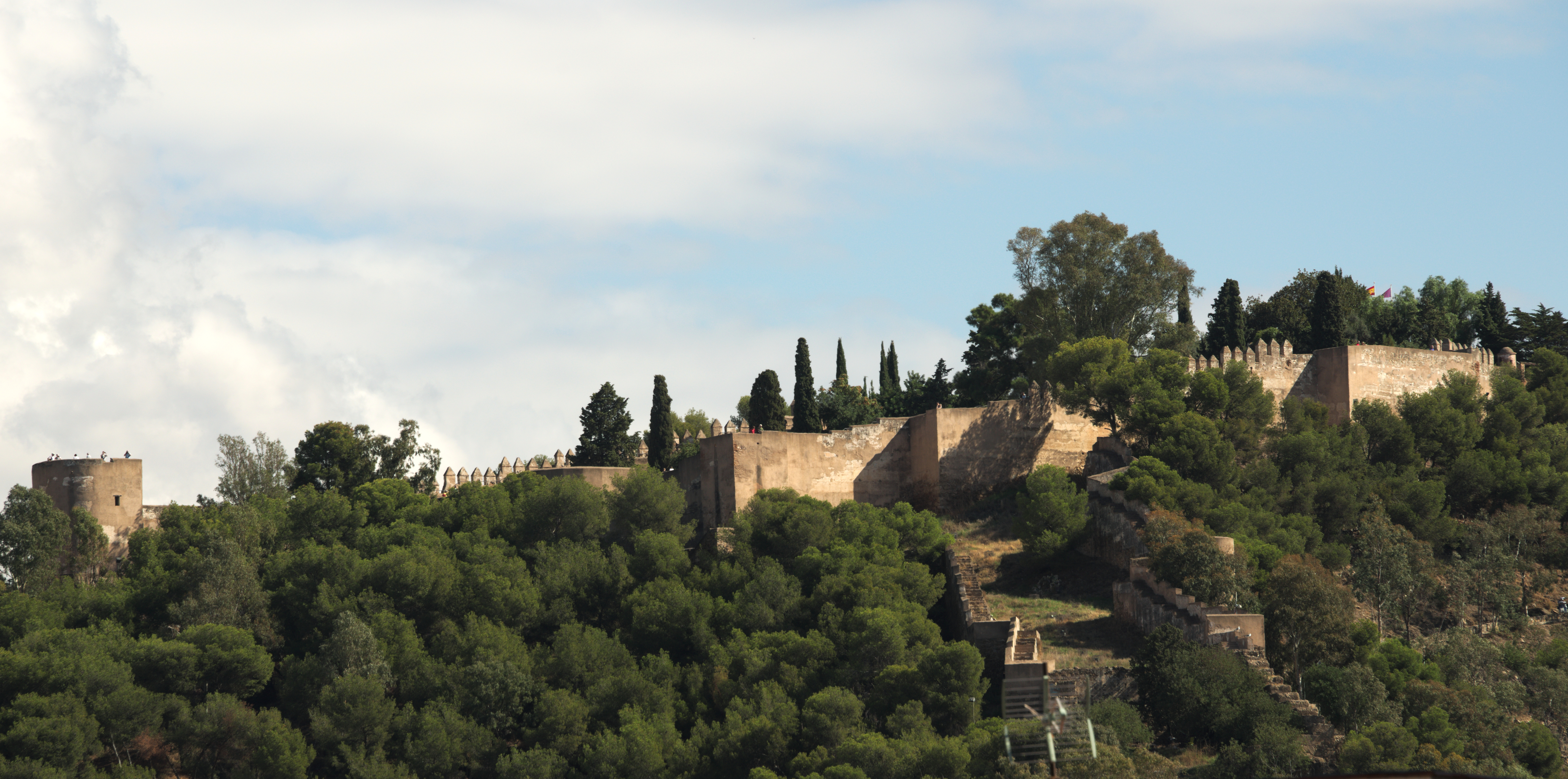 Castillo de Gibralfaro, Málaga.